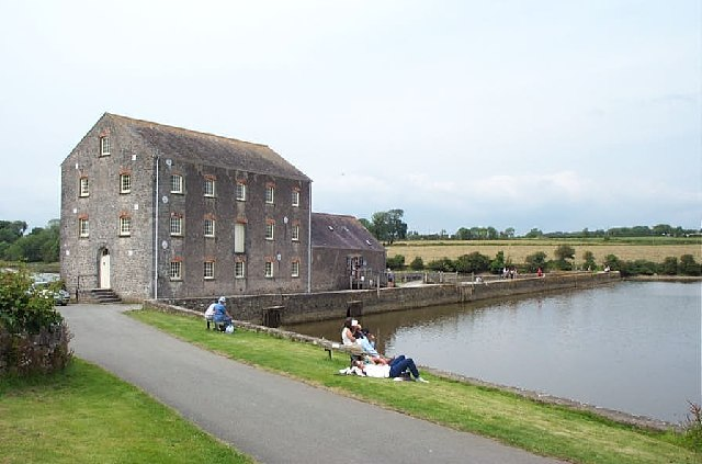 Carew Tidal Mill. Following a fire in 1955 which destroyed a similar building in Pembroke, this tidal mill remains the only one of its kind in Wales. A mill of some kind has existed here since as early as 1542 but the present building dates from the early 19th century. One of the two mill wheels carries the date 1801. The term “French Mill”, often used about Carew, may be a reference to the use of French burr stones. It is hoped that the south wheel will at least be able to turn some of the auxiliary machinery on a regular basis in the future. Thanks to another contributor for some of the additional historic information.